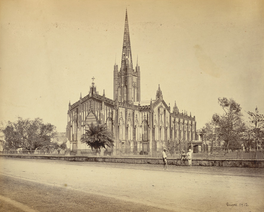 This photograph of St. Paul's Cathedral from 'Views of Calcutta and Barrackpore' was taken by Samuel Bourne in the 1860s. Located on the south-east corner of the Maidan, St. Paul's Cathedral was designed by Major W. N. Forbes in an Indo-Gothic architectural style and built in 1839. Rev. Daniel Wilson, the Bishop of Calcutta was the major financial contributor towards the building of St. Paul's Cathedral.